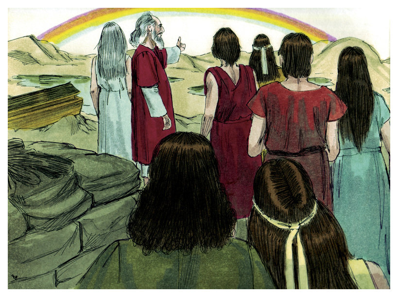 Biblical illustration of Book of Genesis Chapter 9